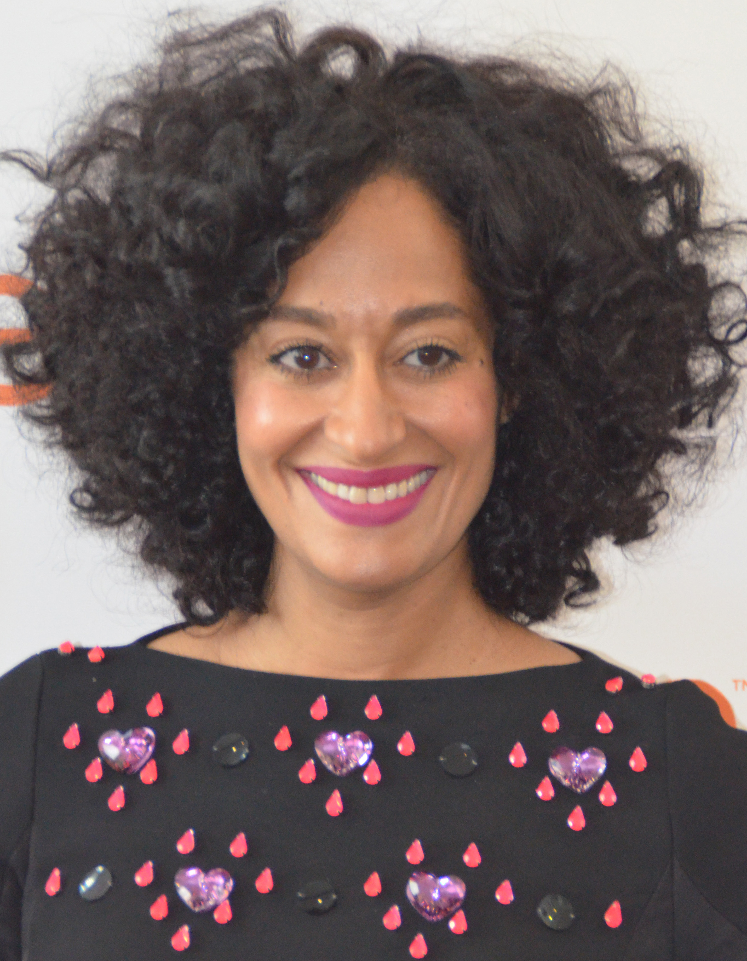 Tracee Ellis Ross at the 46th NAACP Image Awards